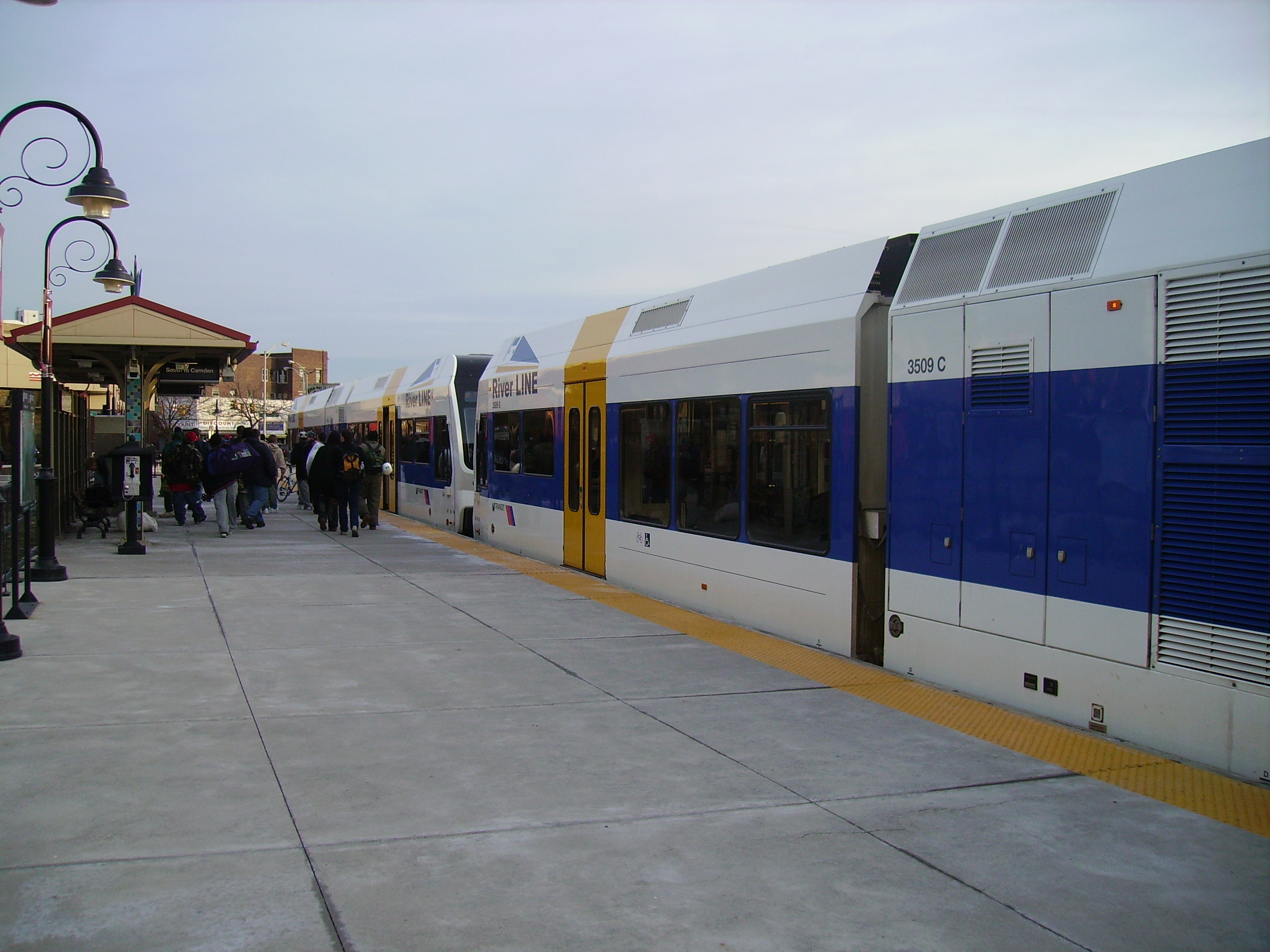 A RIVERline train stopped at Walter Rand Transportation Centre in Camden, across the Delaware river from Philadelphia